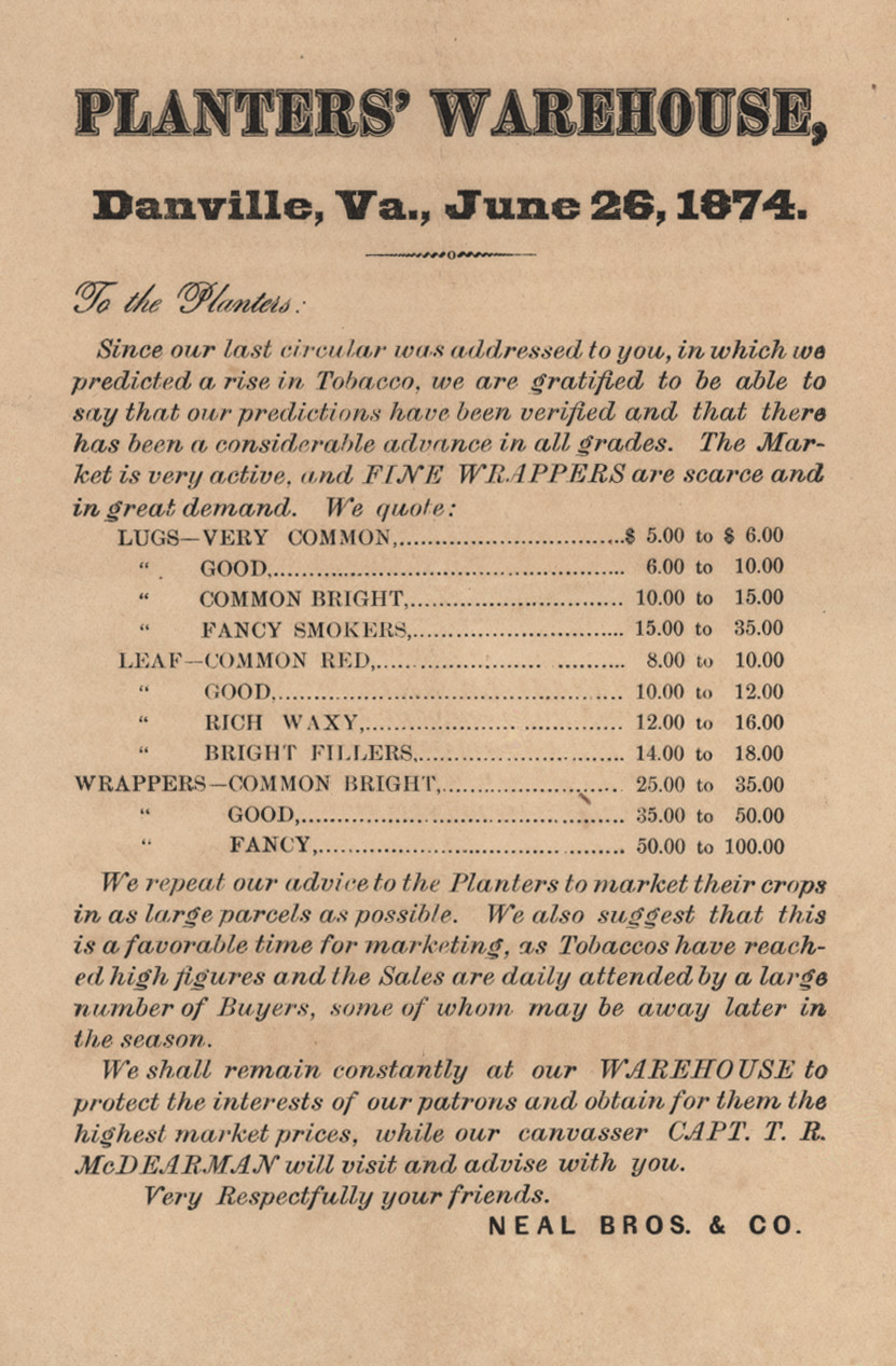 Photograph of poster by Neal Bros. & Co. advertising for tobacco farmers to bring their crops to the Neal warehouse in Danville, Virginia. Courtesy of Duke University Library and the Library of Congress, Washington, D.C.